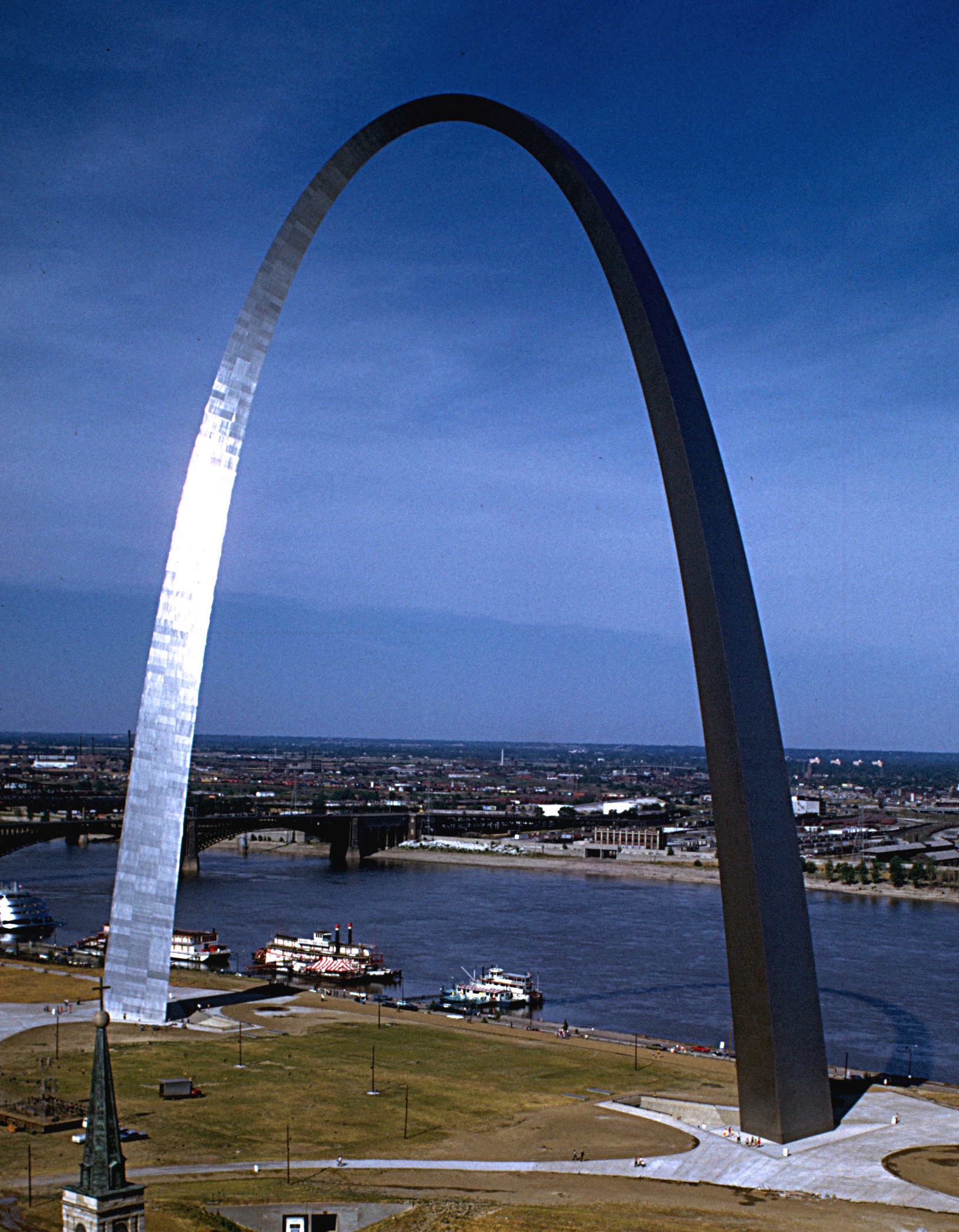 View of Gateway Arch from a distance, including the Mississippi River